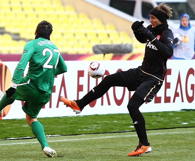 FC Twente in UEFA Europa League round of 32 match against FC Rubin Kazan